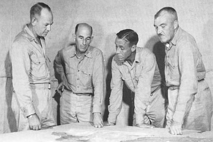 BGen Lemuel C. Shepherd, Jr., Commanding General, 1st Provisional Marine Brigade and his principal officers, from left, Col John T Walker, brigade chief of staff; LtCol Alan Shapley, commander, 4th Marines; and Col Merlin T Schneider, commander, 22d Marines, view a relief map of Guam for the brigade's operation.